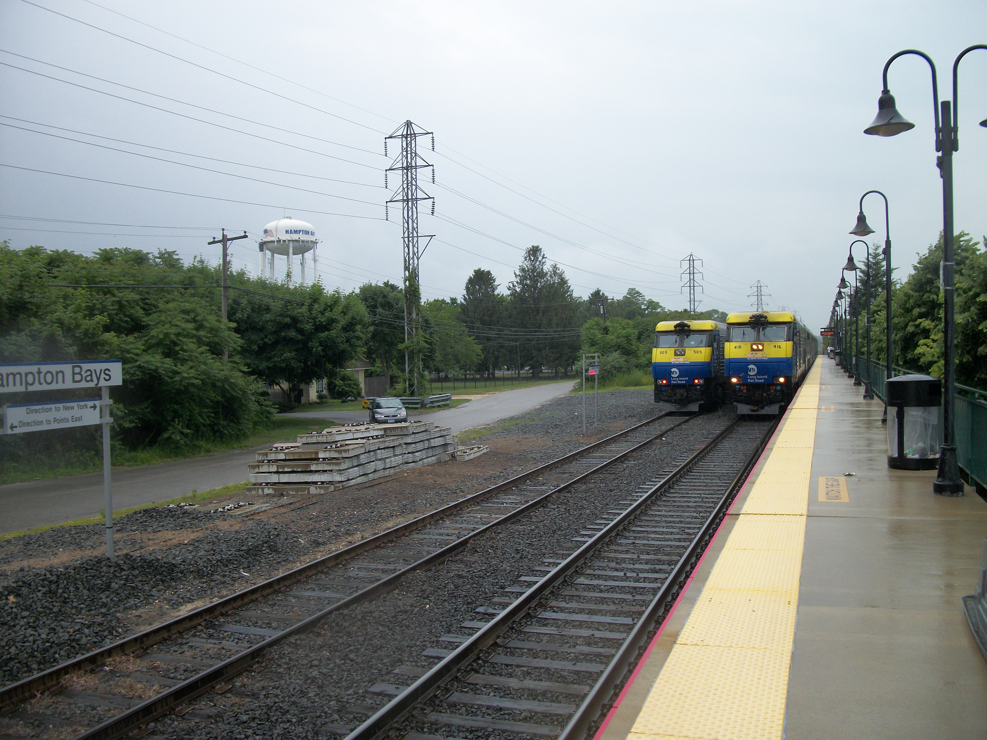 Two trains at the two tracks of Hampton Bays (LIRR station), as seen from the high-level sheltered platform. The train on the left is idling, while the train on the right is arriving at the station.